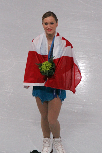 Joannie Rochette(CAN)at the 2010 Winter Olympic figure skating medal ceremony.